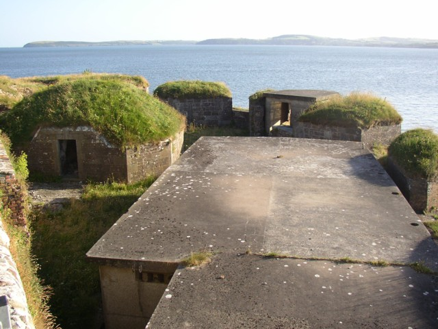 The lower battery, Duncannon Fort, Co. Wexford. This has had a concrete building inserted.